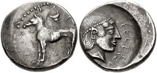 Sicily, Segesta. Circa 440-400 BC. AR Didrachm (8.27 g). Hound standing left; shell above ΣΕΓΕΣΤΑ (SEGESTA) (retrograde), diademed head of Segesta right. SNG ANS 635 var. (head left; same obverse die); SNG Lloyd -; SNG Copenhagen -; SNG Lockett 851 var. (head left; same obverse die). Attractively toned EF, slightly off-center. Ex Moretti Collection (forthcoming), 1749.